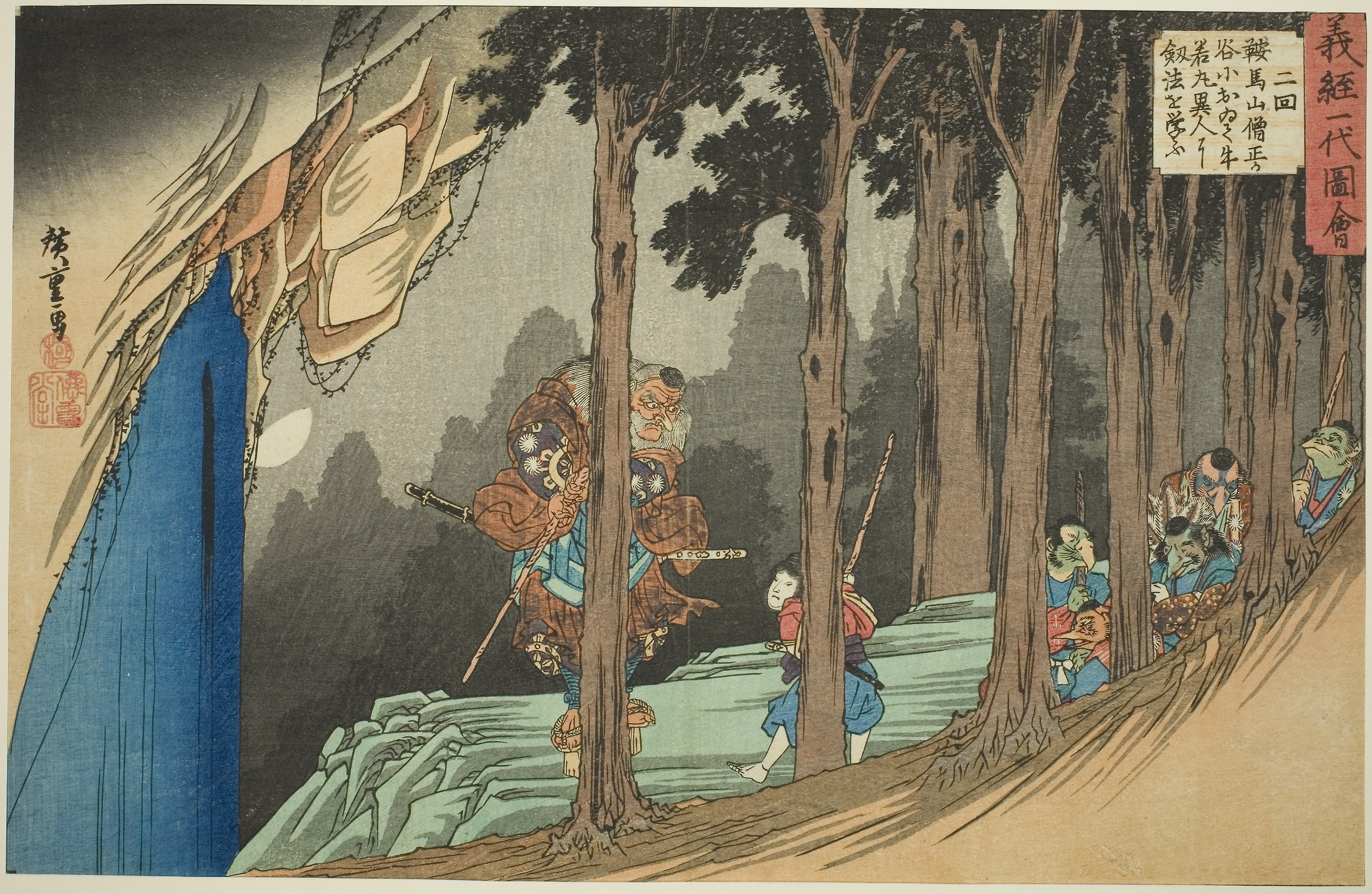 Woodblock print in colour depicting the Tengu king, Ushiwakamaru, and other tengu on Mount Kurama.